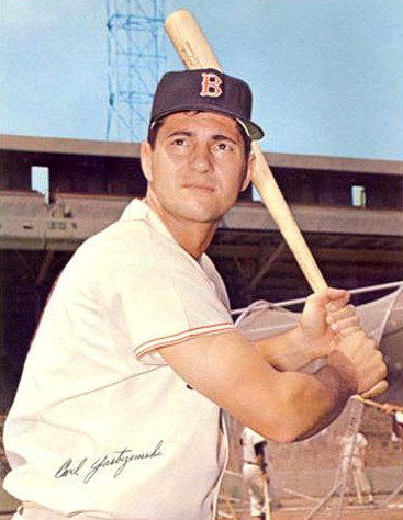 Professional baseball player Carl Yastrzemski